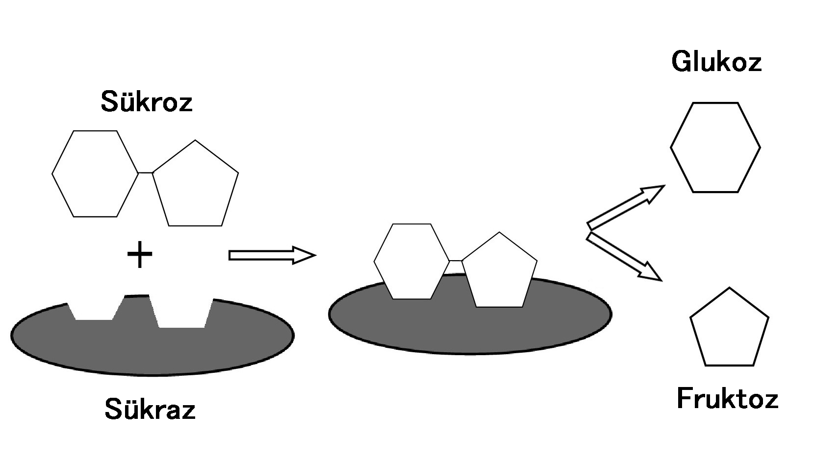 The disaccharidase sucrase hydrolyzes sucrose into the monosaccharides glucose and fructose